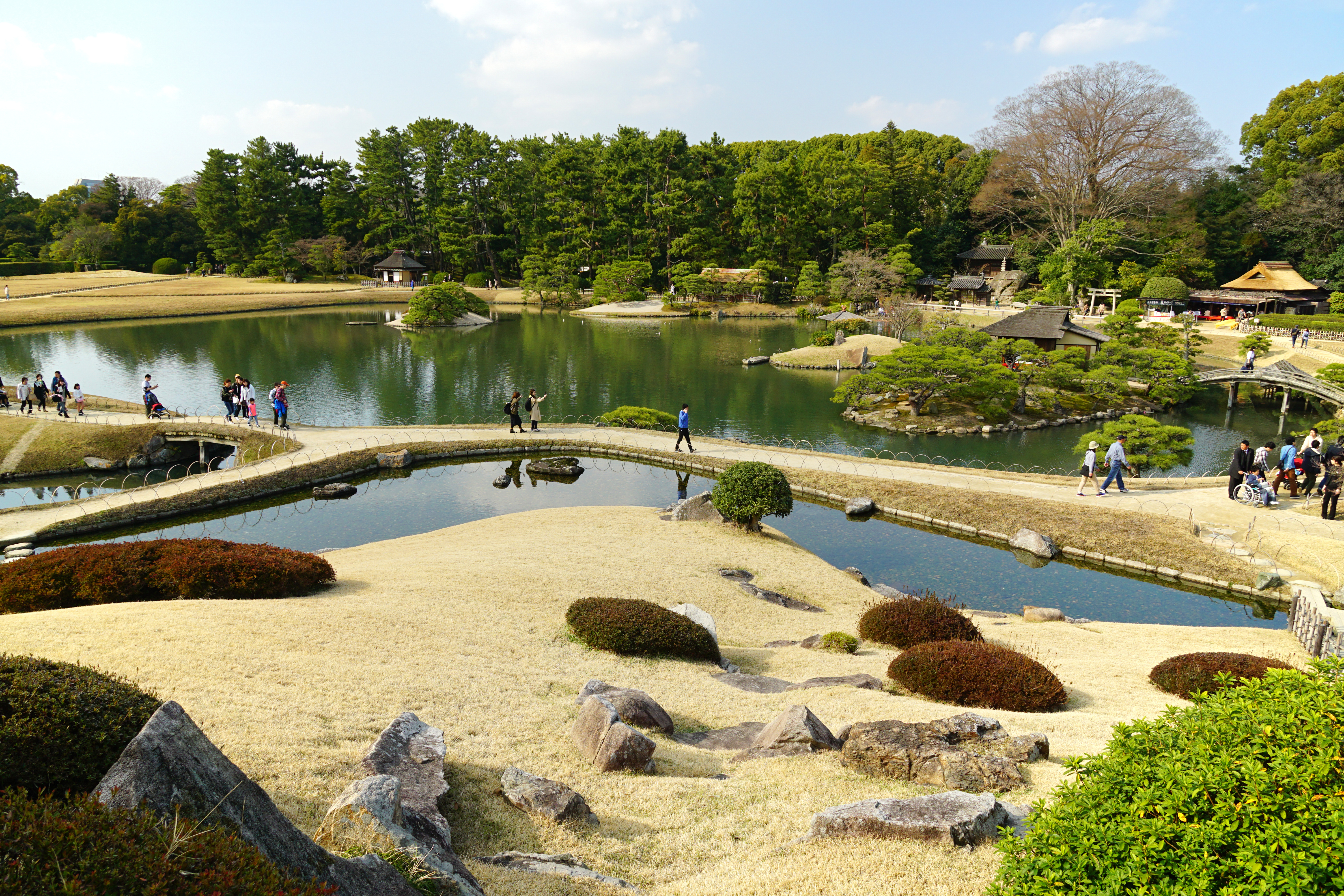 Kōraku-en in Okayama, Okayama prefecture, Japan